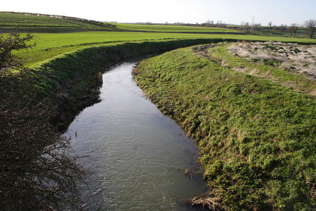 East Glen River Looking down stream from the bridge on the road from Edenham to Lound.